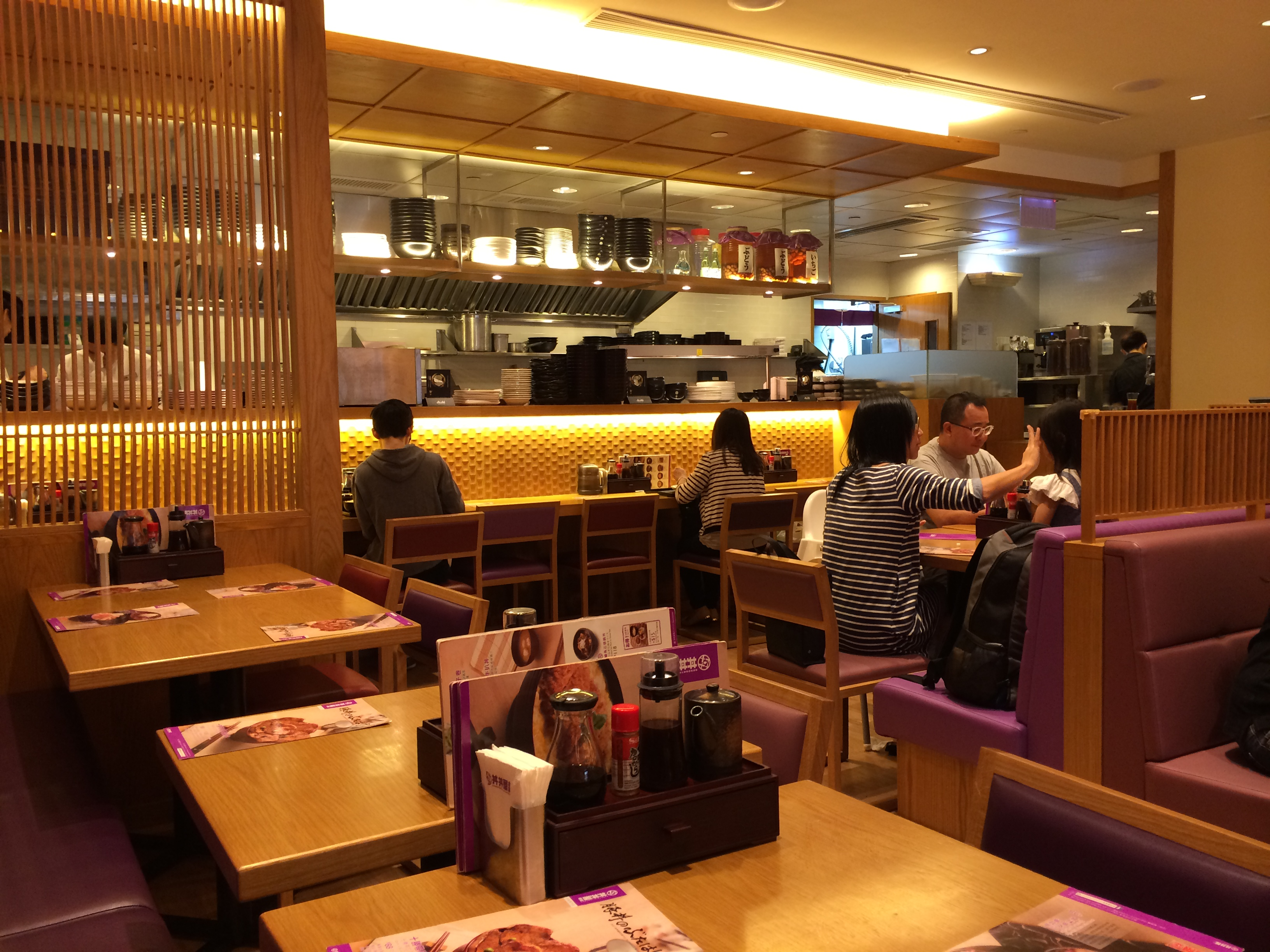 Dondonya Shatin Interior